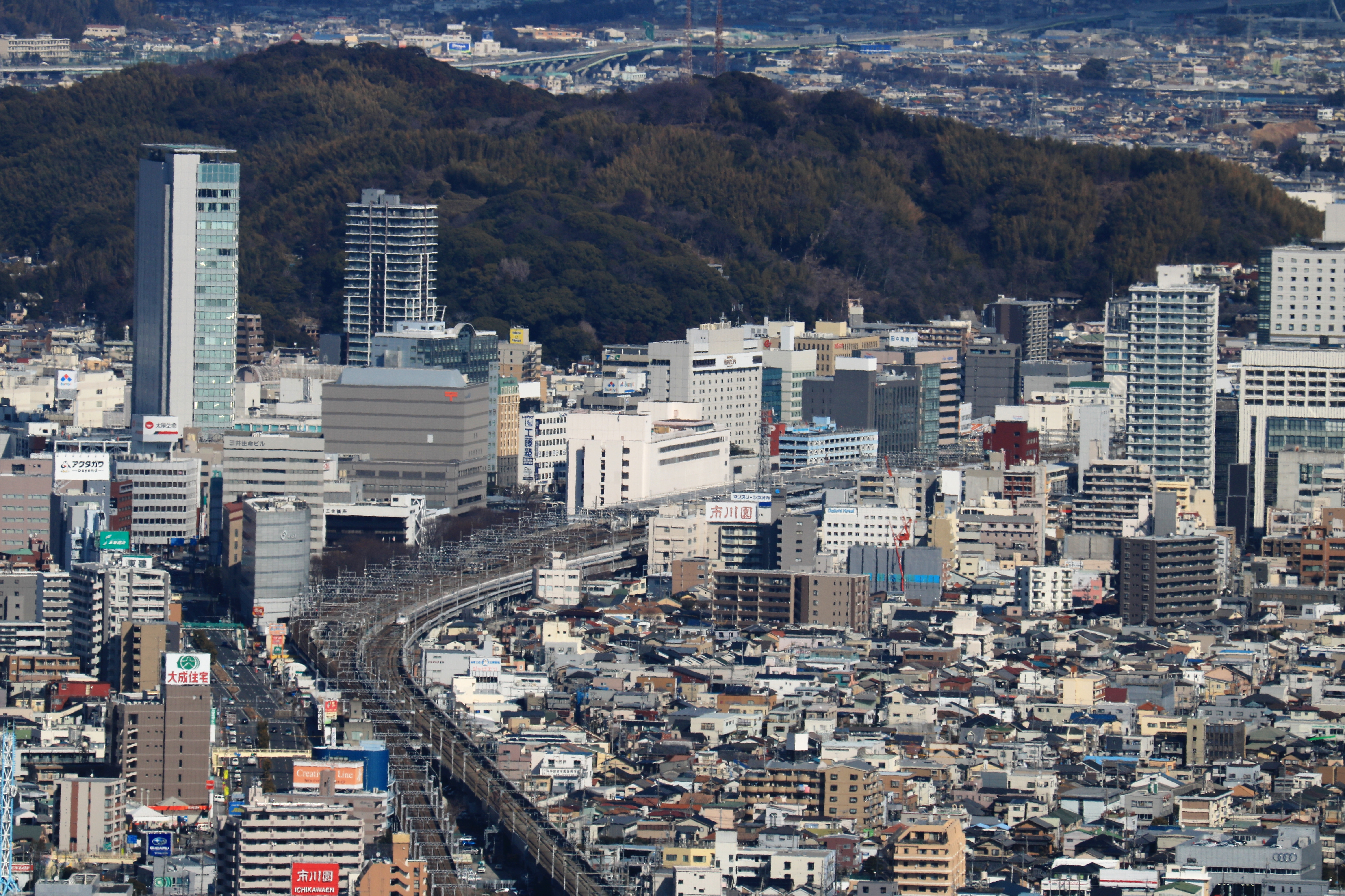 Shizuoka Station seen from Choseniwa in Shizuoka City, Shizuoka Prefecture, Japan.